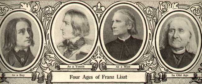 Franz Liszt, from 1913 The Etude magazine